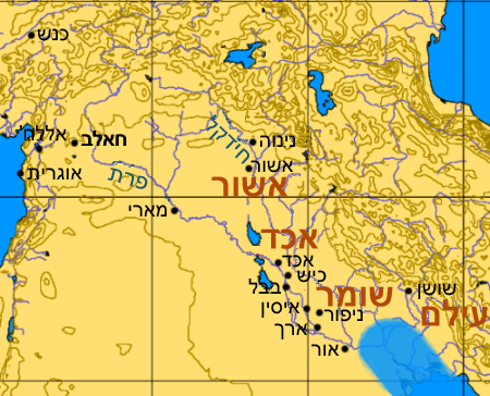 based on Image:Orient 27 43 22 55 blank map.png. the approximate Bronze Age extent of the Persian Gulf is shown.